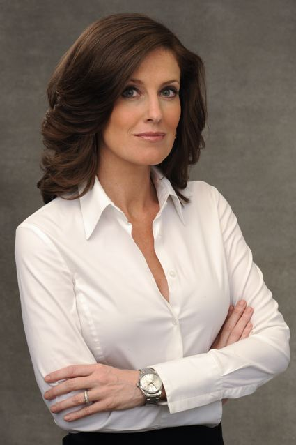 Sharyn Alfonsi is an on-air correspondent and Emmy Award winning journalist who appears on ABC News.